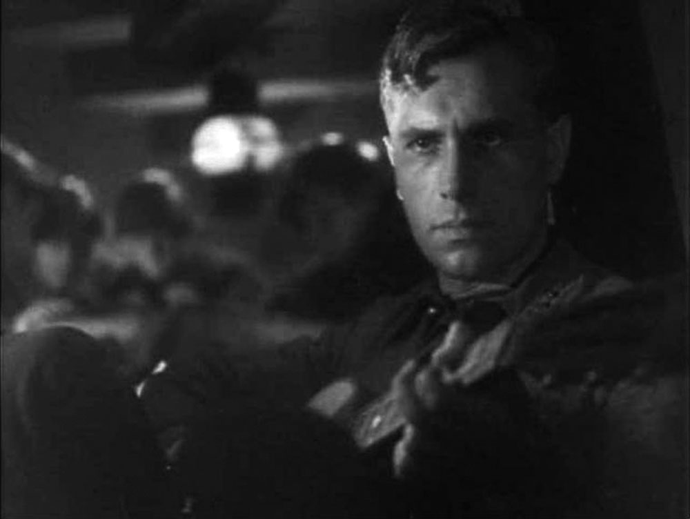 Mark Bernes sings "Tyomnaya noch" ("Dark is the night") in movie "Dva boytsa" ("Two soldiers")